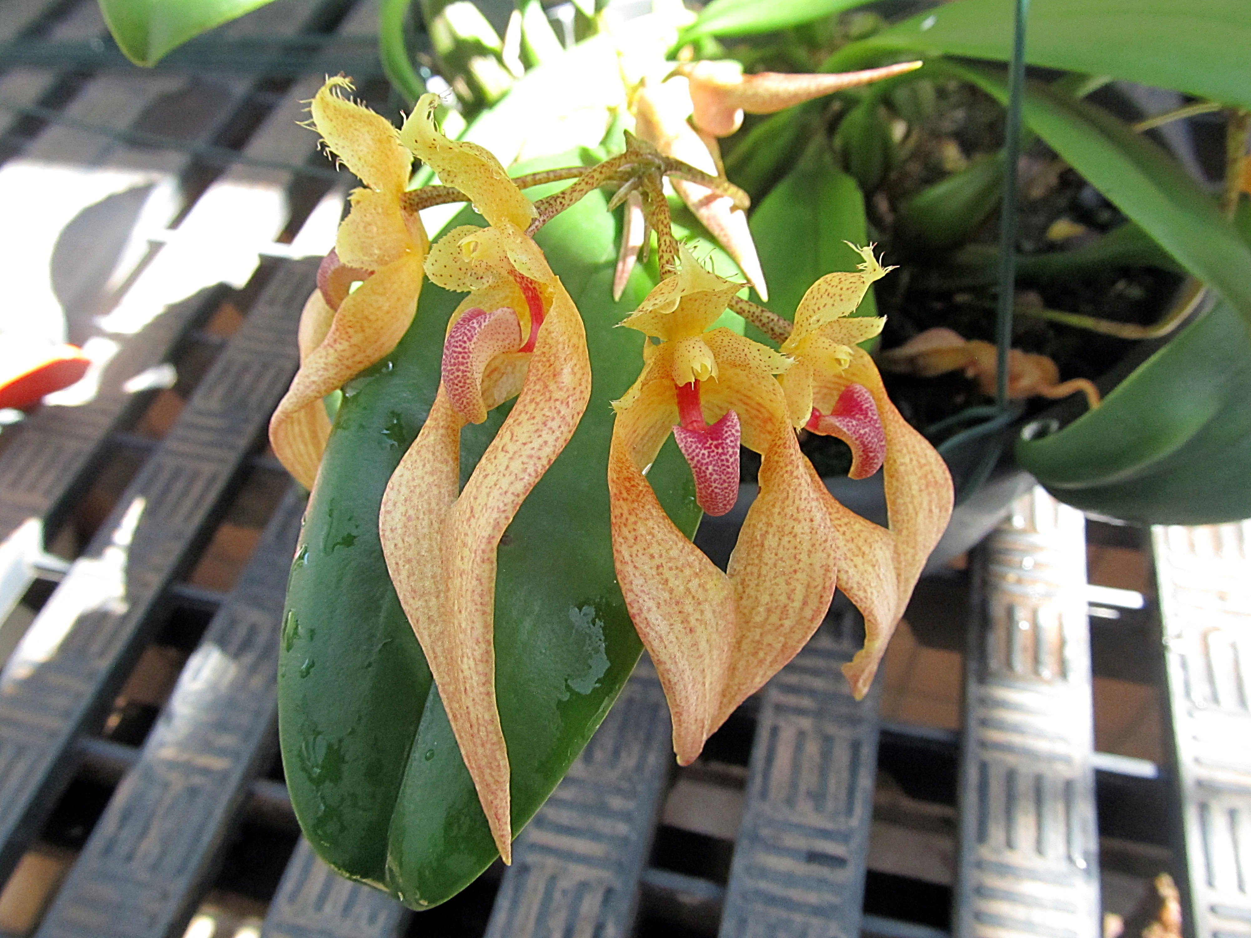 Phot by Christian Aparecido Demetrio 11/03/2013